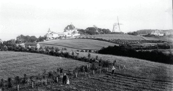 Hohannes Neye's former summer residence Møllebakken in Espergærde north of Copenhagen, Denmark